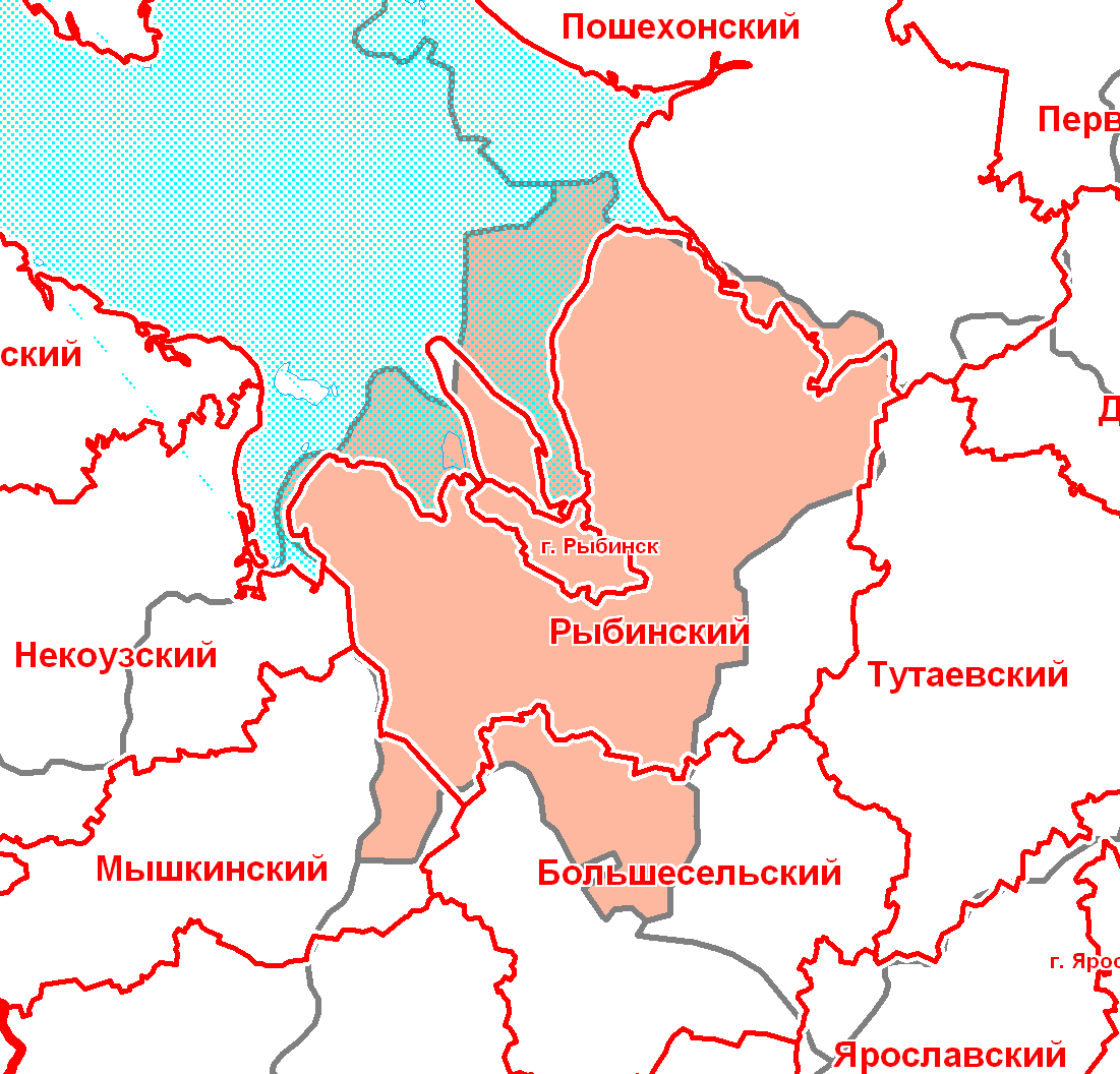 Maps of Yaroslavl Governorate